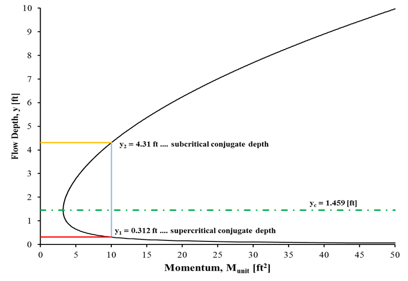 Conjugate depths for a specific momentum force value